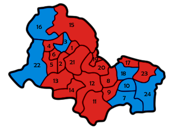 Ward map of the Wigan council with political colouring for the 1978 election. Labour Conservative